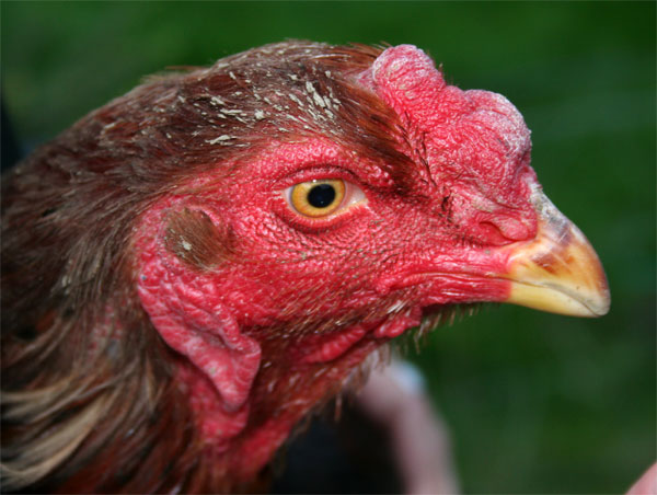 Head of Kulang Asil rooster, note walnut comb typical for Malay not typical for Kulang Asil